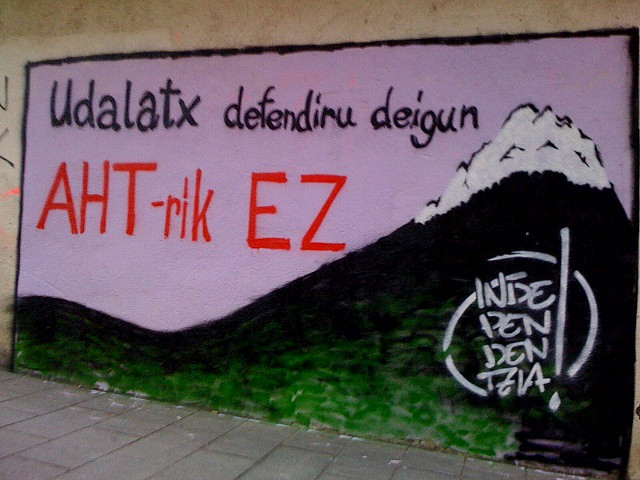 Graffiti in favour of defending mount Udalatx (Gipuzkoa) from the damages caused by building the high-speed rail which is planned to go through there.